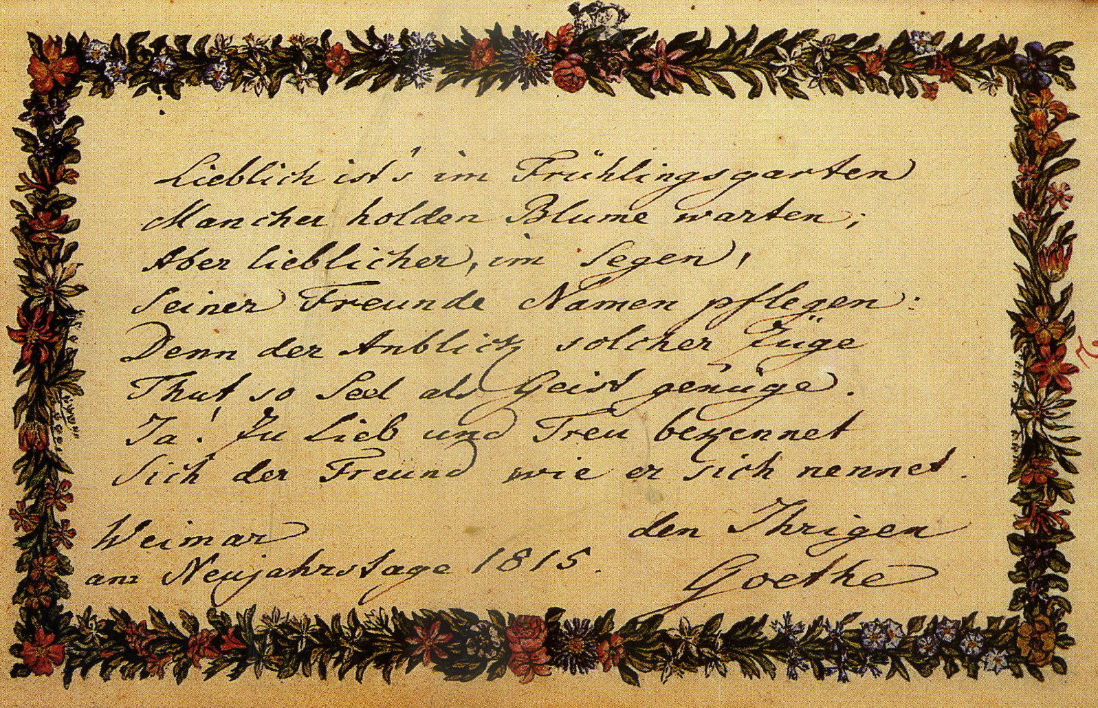 Entry in the Amicorum album of Antonie Brentano by Johann Wolfgang von Goethe.